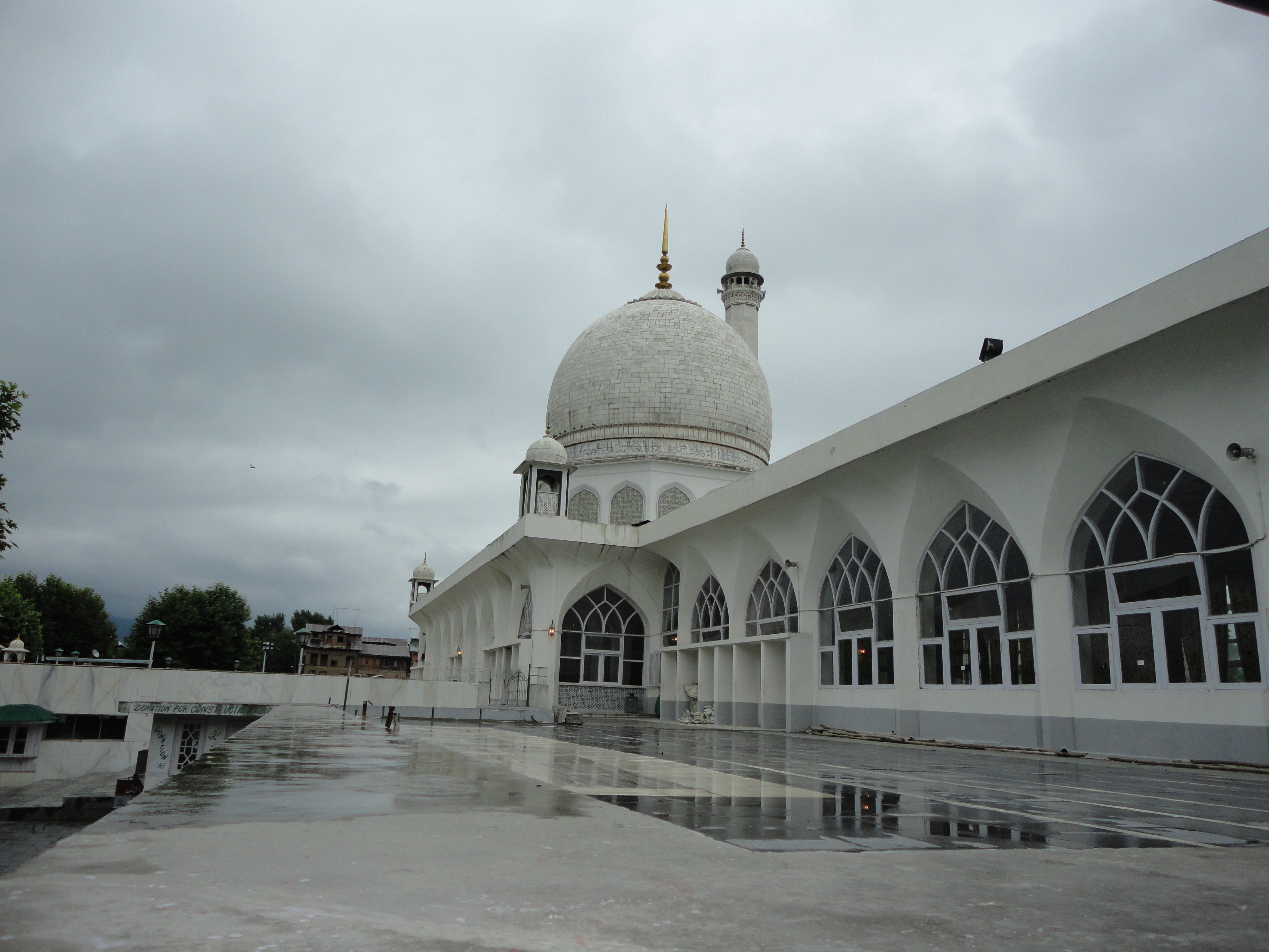 HAZRATBAL SHRINE IS IN SRINAGAR CITY OF JAMMU & KASHMIR STATE OF INDIA